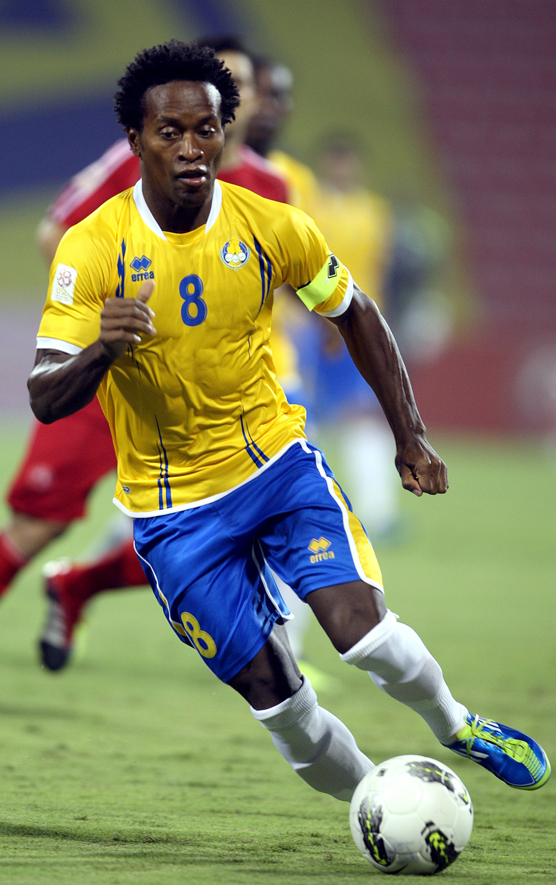 Al Gharafa's Zé Roberto controls the ball. Pic by Mohan